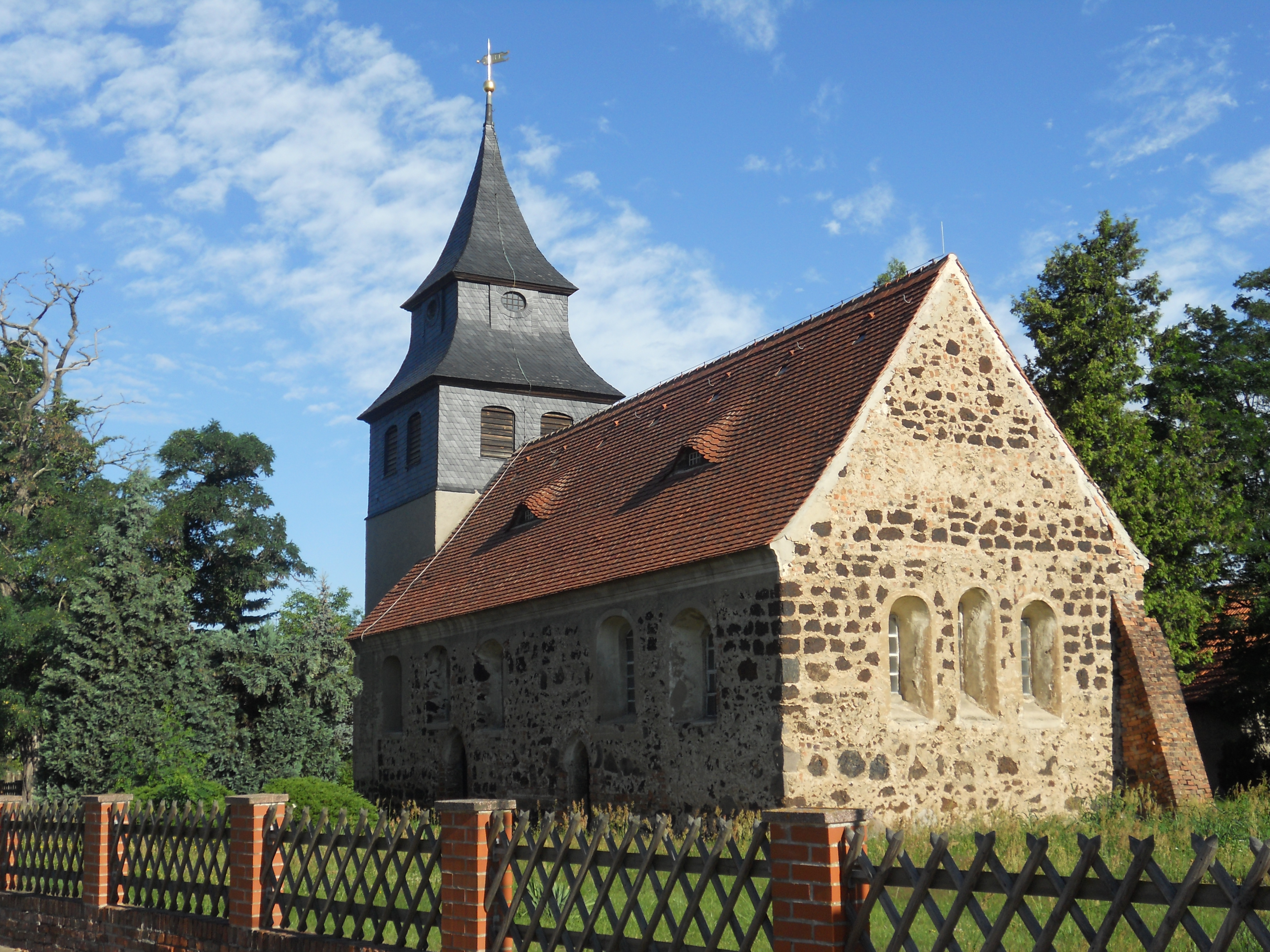 Church of Klossa